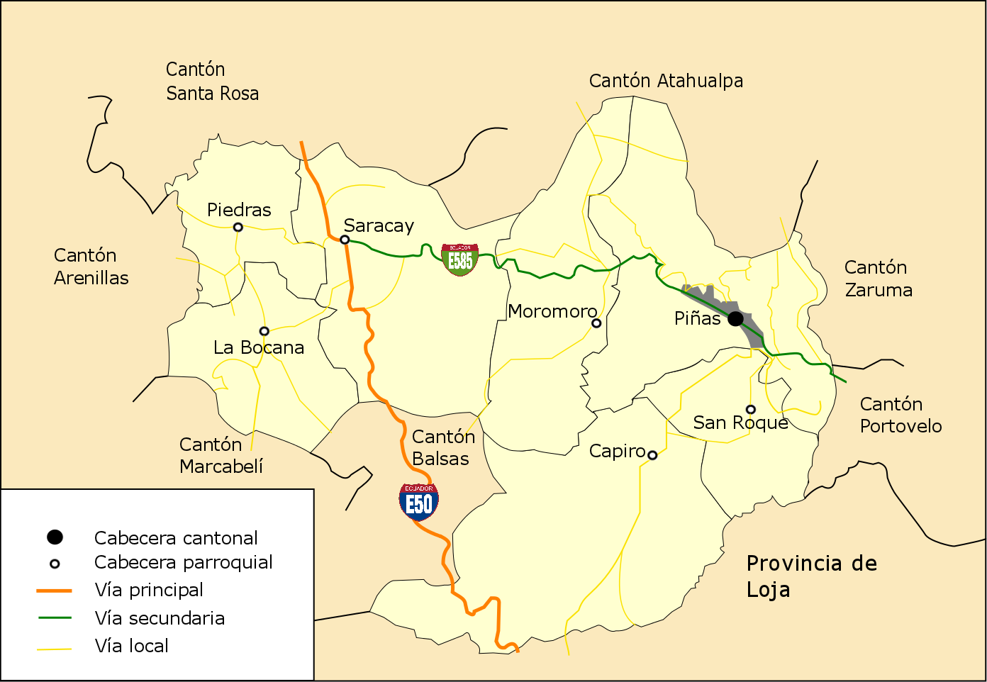 Piñas map which shows the main roads.